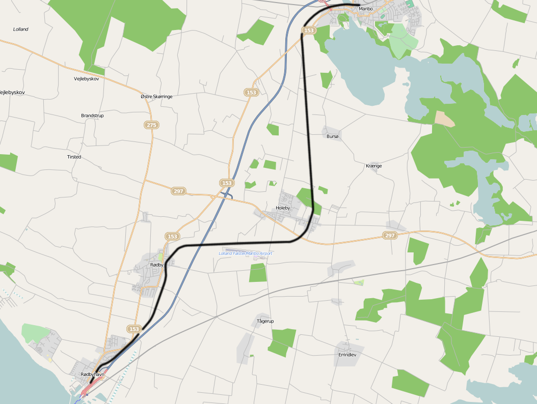 Railway line Maribo - Rødby Havn